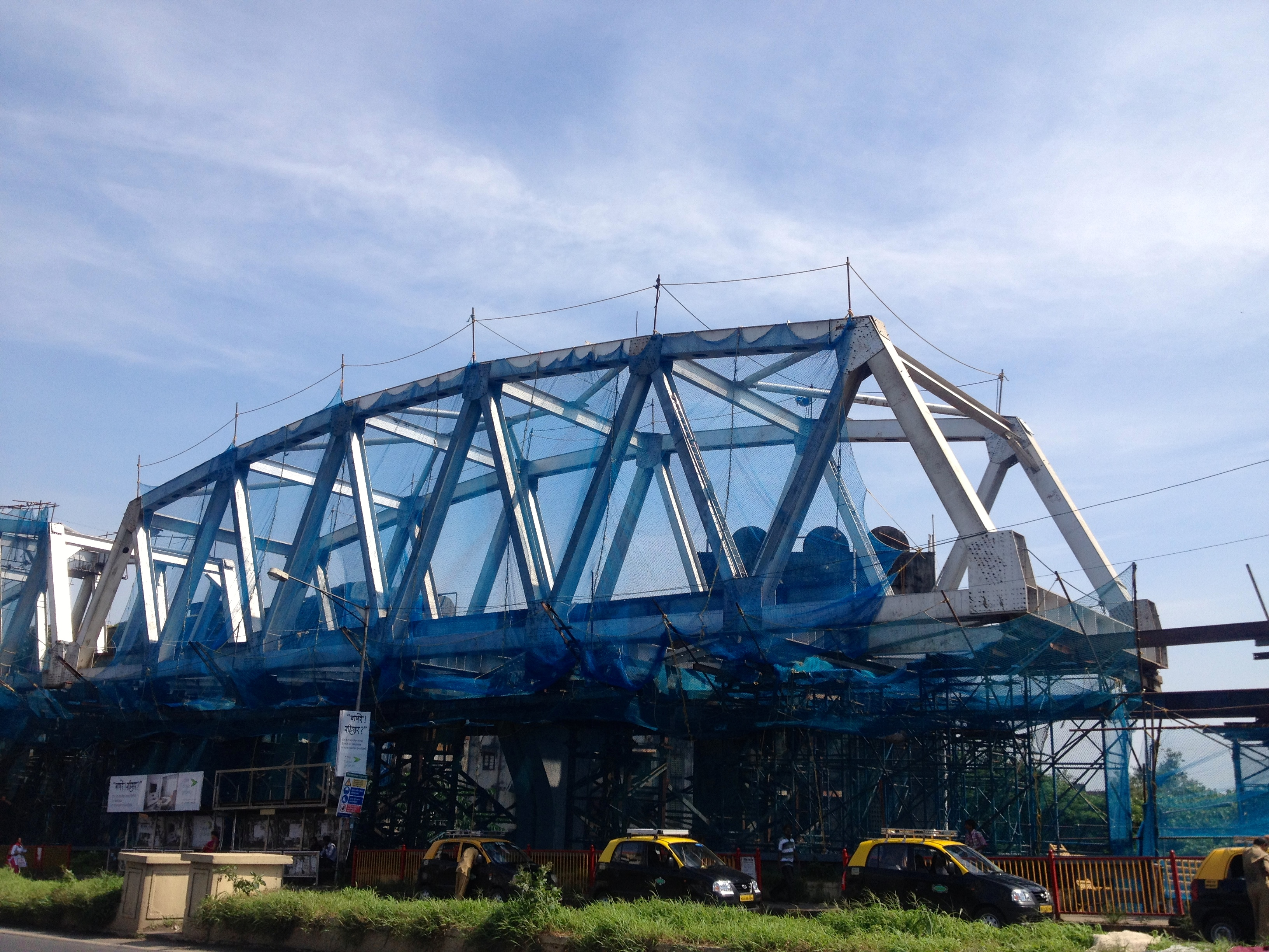 Railway for the Mumbai Monorail under construction at Wadala in Mumbai, India